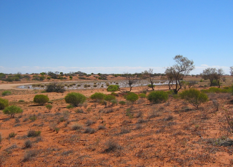 Clay pan pond near Marree forbidden zone in South Australia